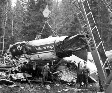 Salvage of Braathes SAFE Flight 239 Fokker F28 LN-SUY which crashed in Asker on 23 December 1972.